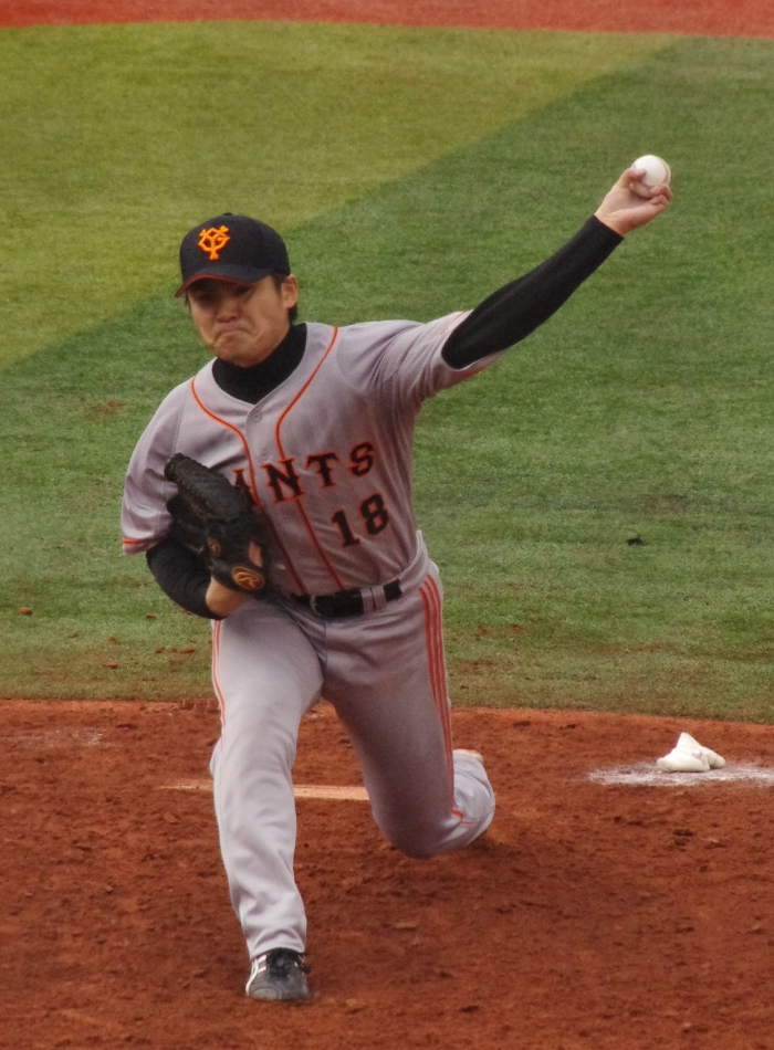 Toshiya Sugiuchi, pitcher of the Yomiuri Giants, at Yokohama Stadium.